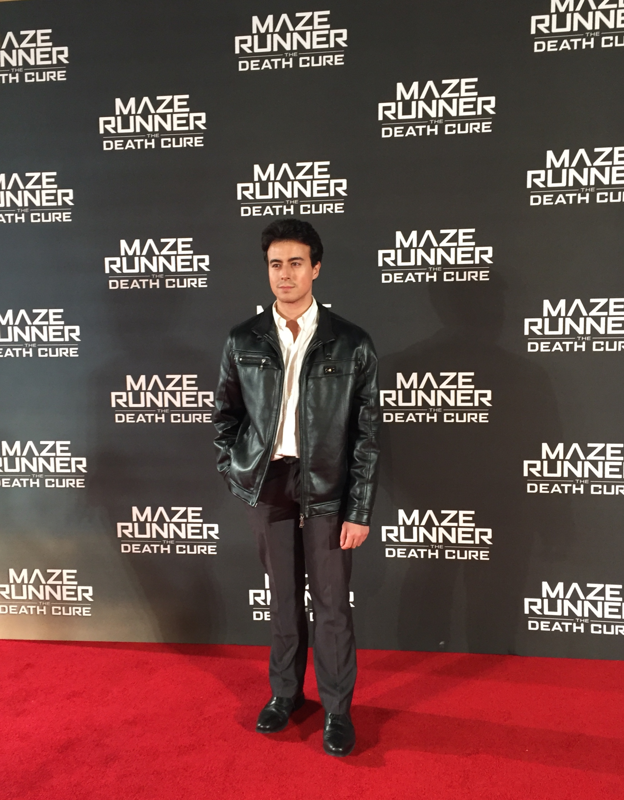 Tommy Hatto at The Maze Runner Death Cure Premiere - January 2018